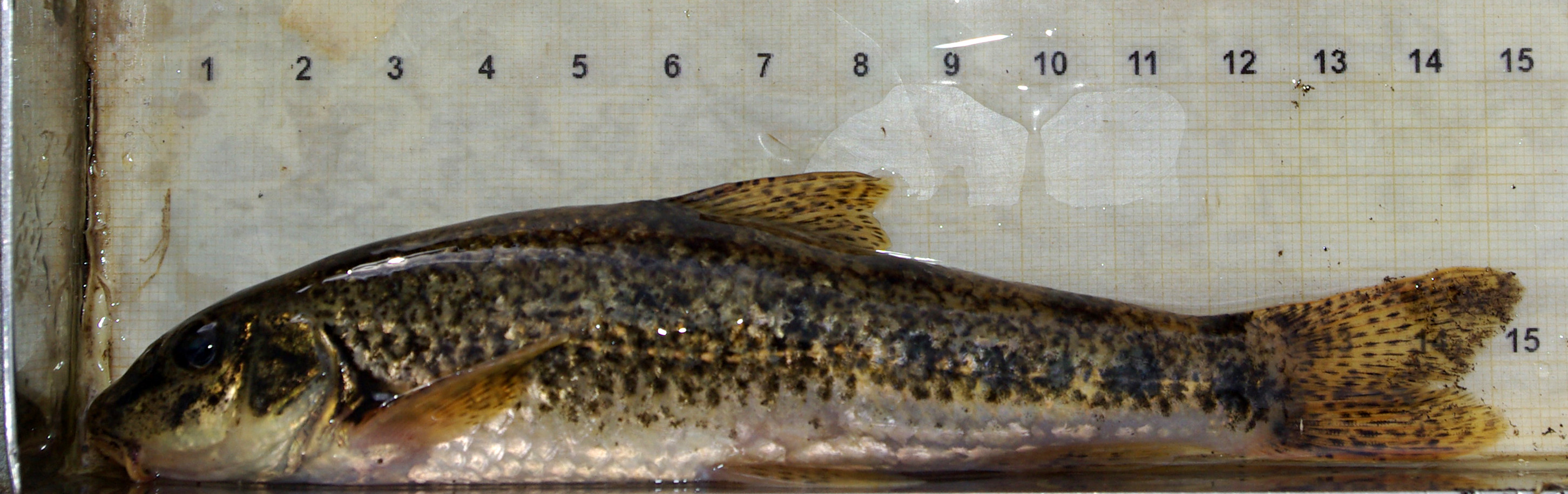 Gobio lozanoi. León (Spain).